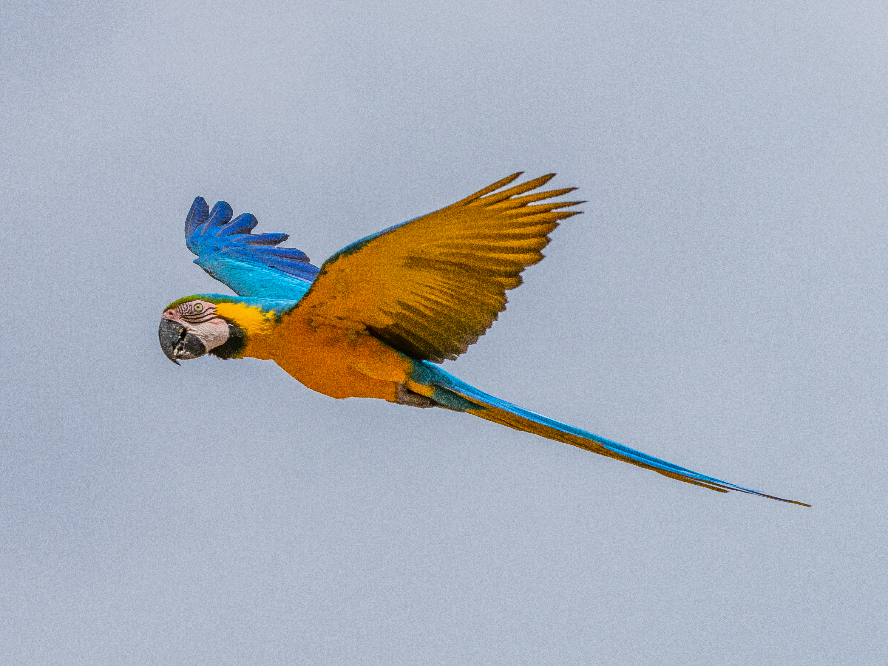 Palmitos Park, Gran Canaria, March 2019